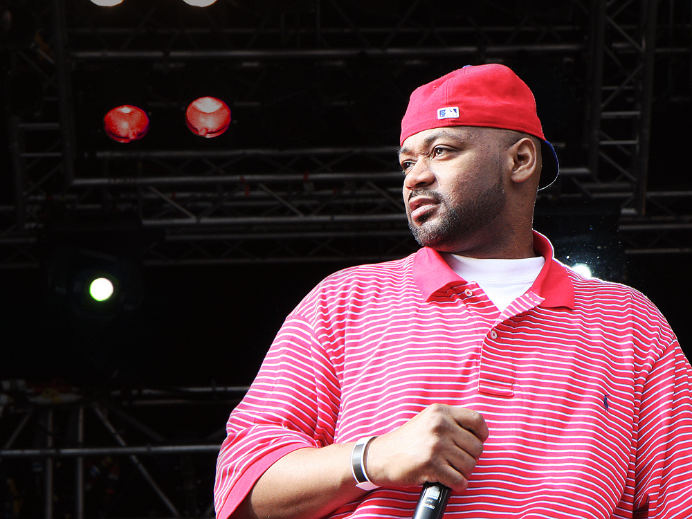 Ghostface Killah in Norway 2010